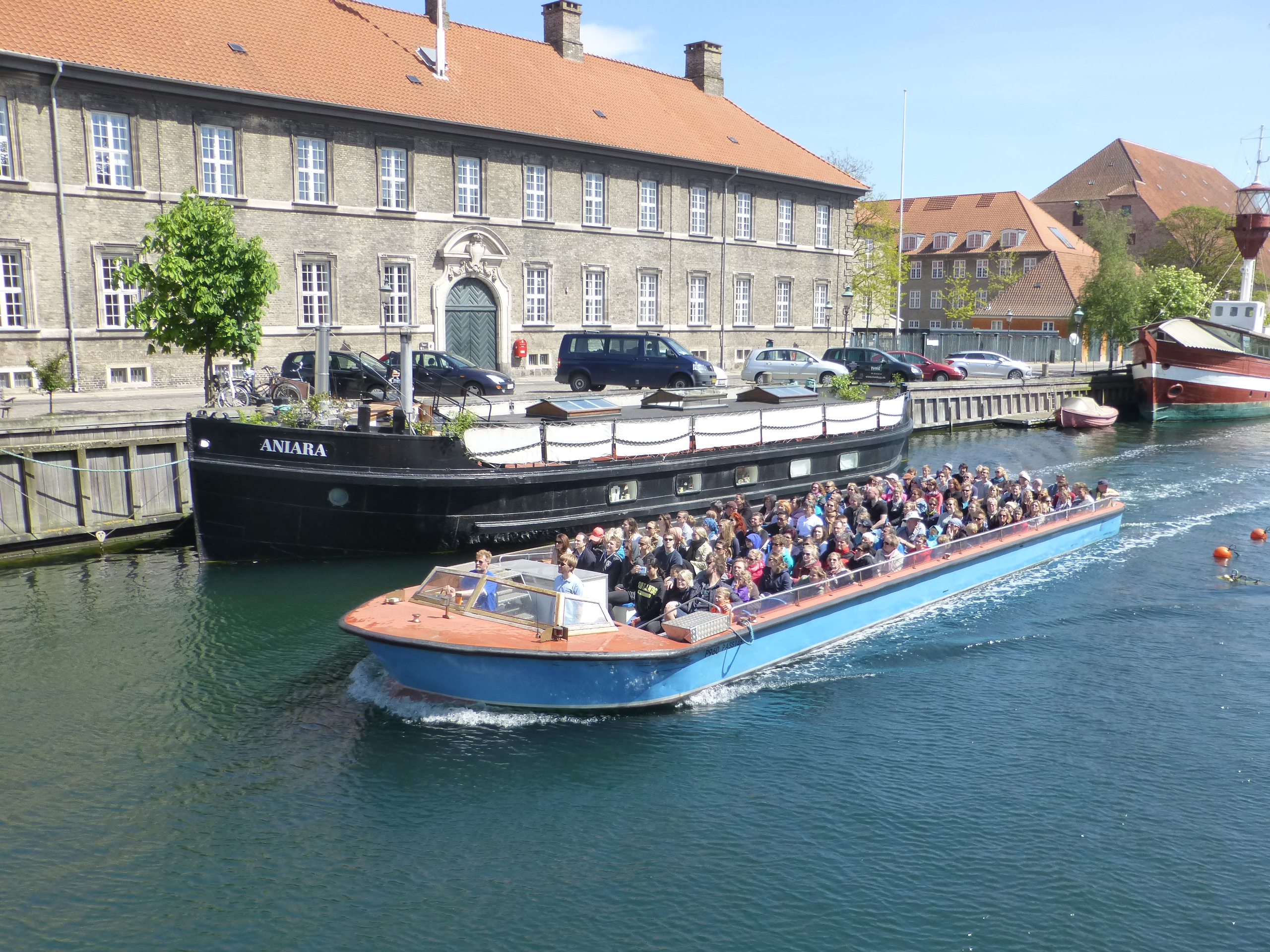 The harbour boat trips Netto-Bådene in Frederiksholms Kanal in Copenhagen.